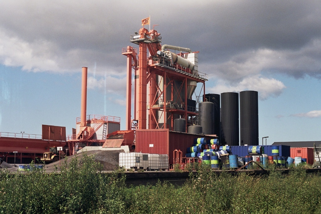 An asphalt plant (?) operated by Lemminkäinen in Rusko, Oulu, Finland.